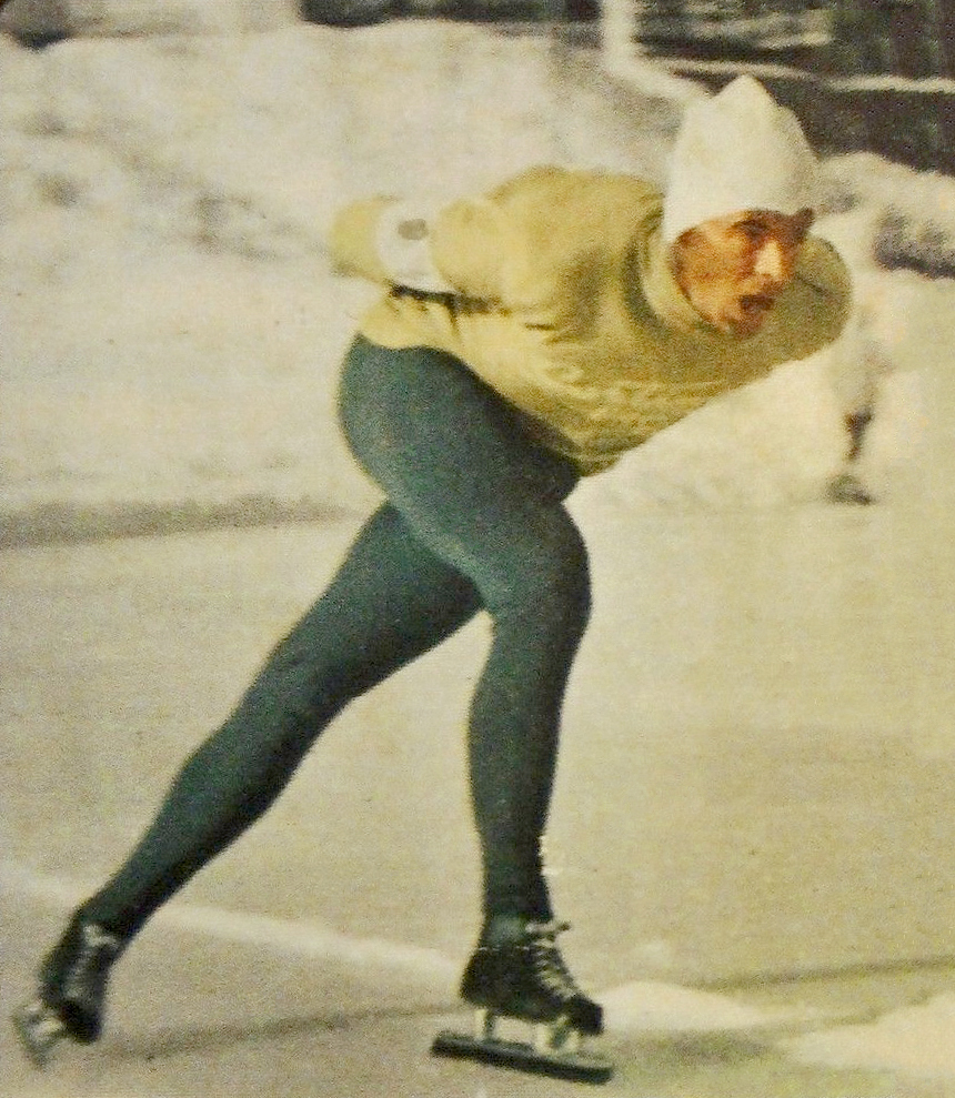 FIGURINA PANINI CAMPIONI DELLO SPORT N.211 DE RIVA 1968-69